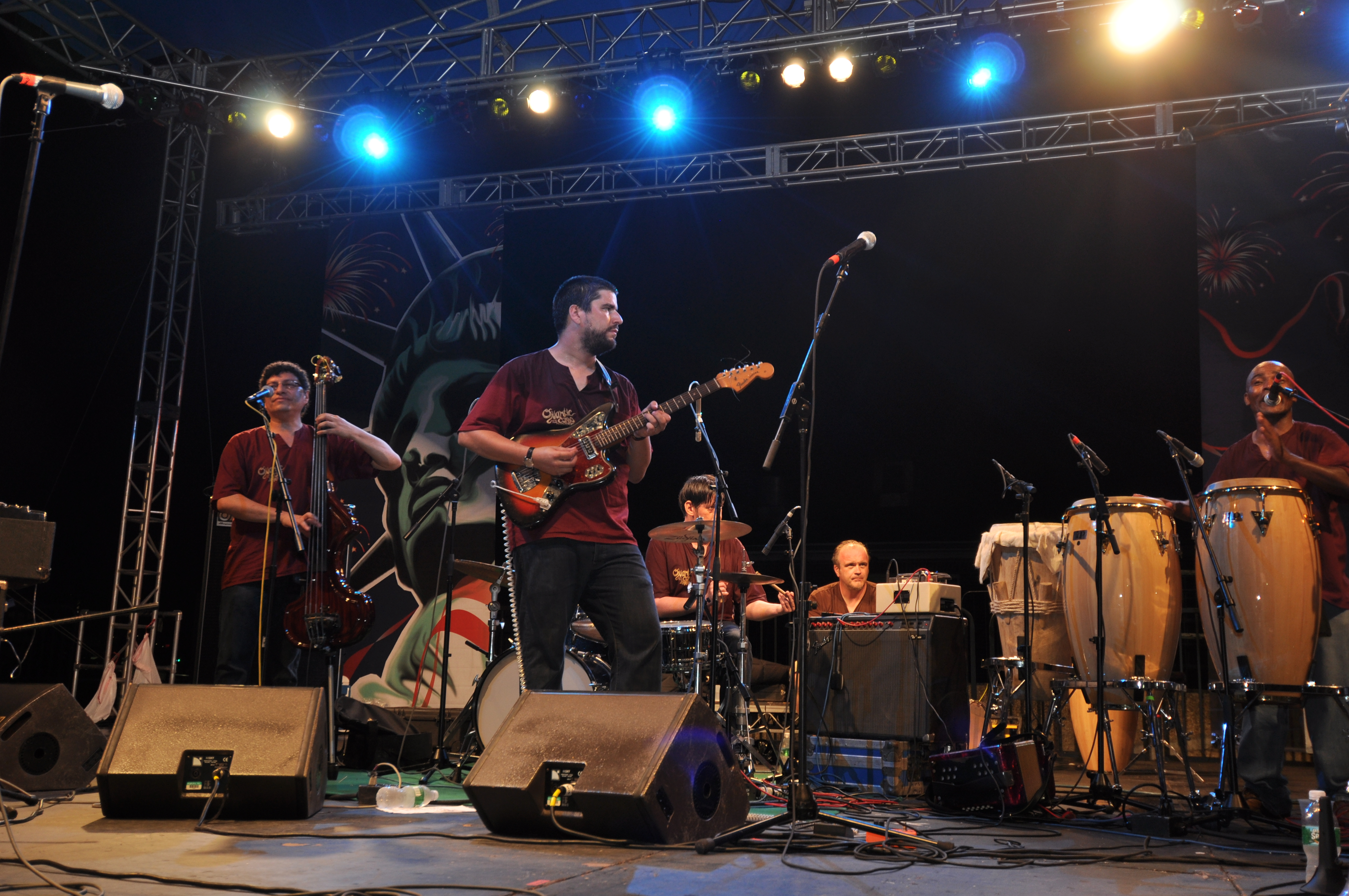 2009 with his Quantic Soul Orchestra, NYC